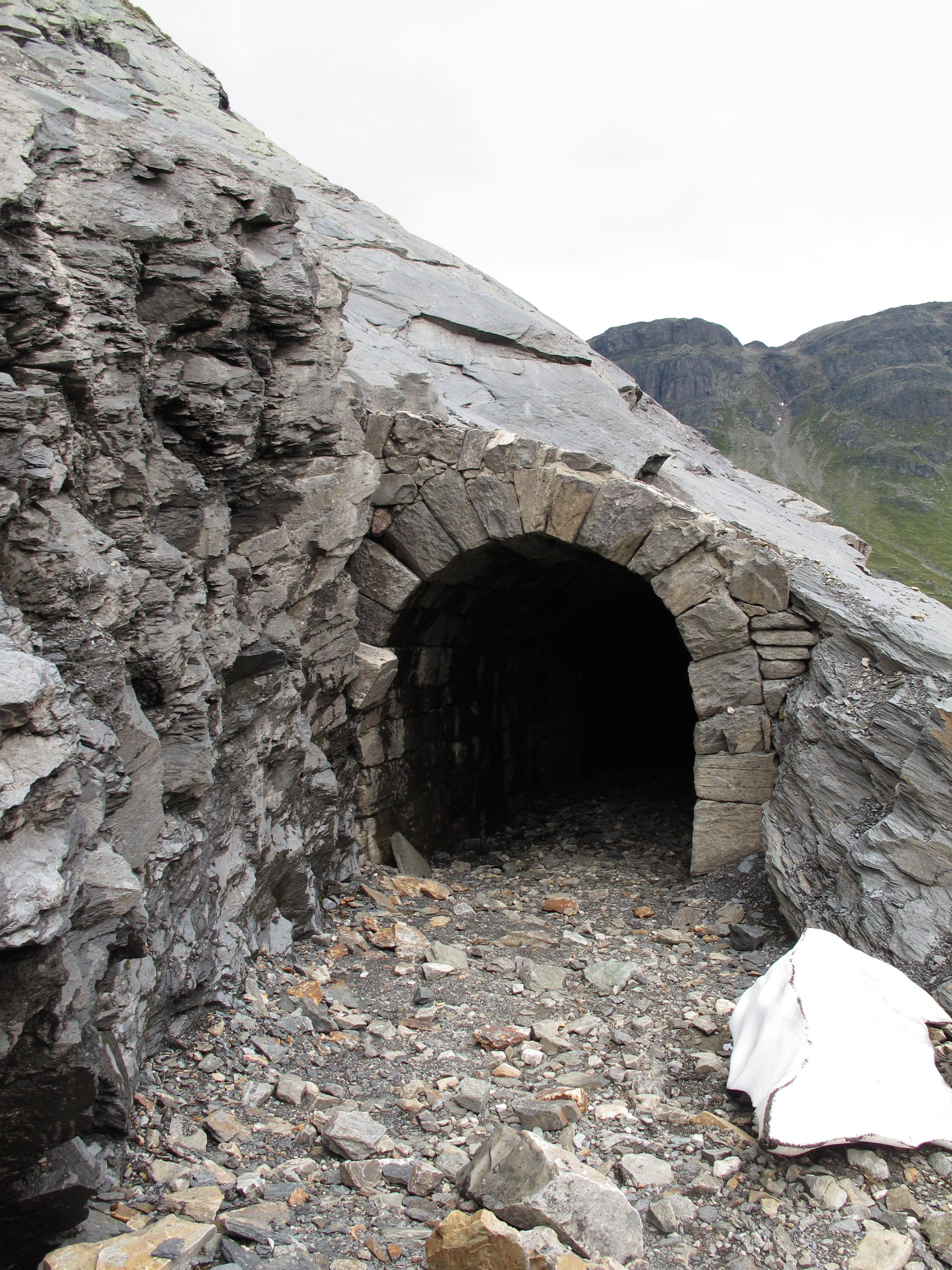 Western entrance/exit to tunnel.